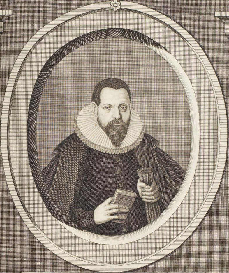 Engraved portrait of Paul Tarnow, in: in: Monumenta inedita rerum Germanicarum praecipue Cimbriacarum et Megapolensium : quibus varia antiquitatum, historiarum, legum iuriumque Germaniae, speciatim Holsatiae et Megapoleos vicinarumque regionum argumenta illustrantur, supplentur et stabiliuntur ; cum tabulis aeri incisis / e codicibus ... studuit ... et cum praefatione instruxit Ernestus Joachimus de Westphalen .. Band 3, Lipsiae: Martin 1741